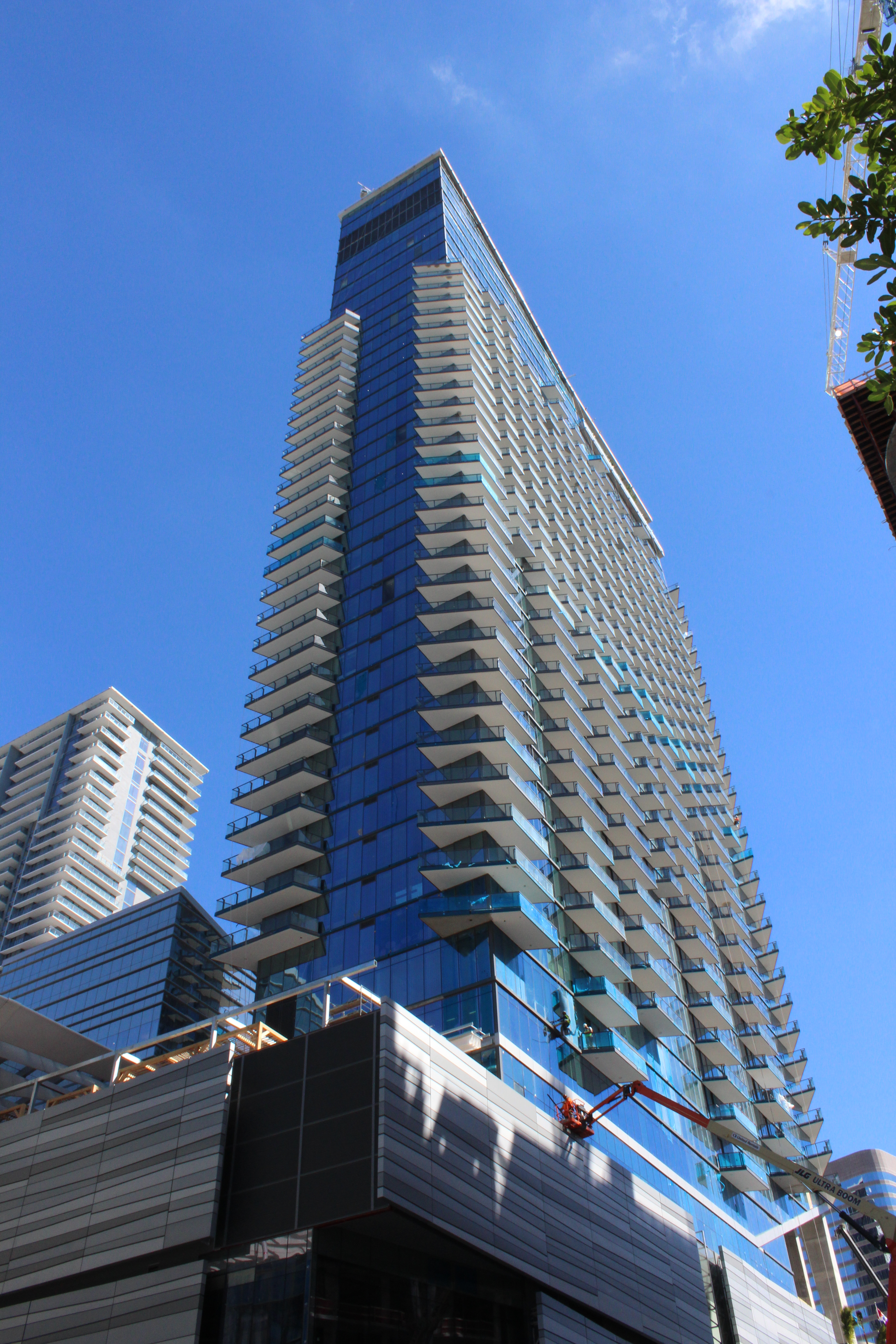 East, a tower of Brickell City Centre, containing a hotel.